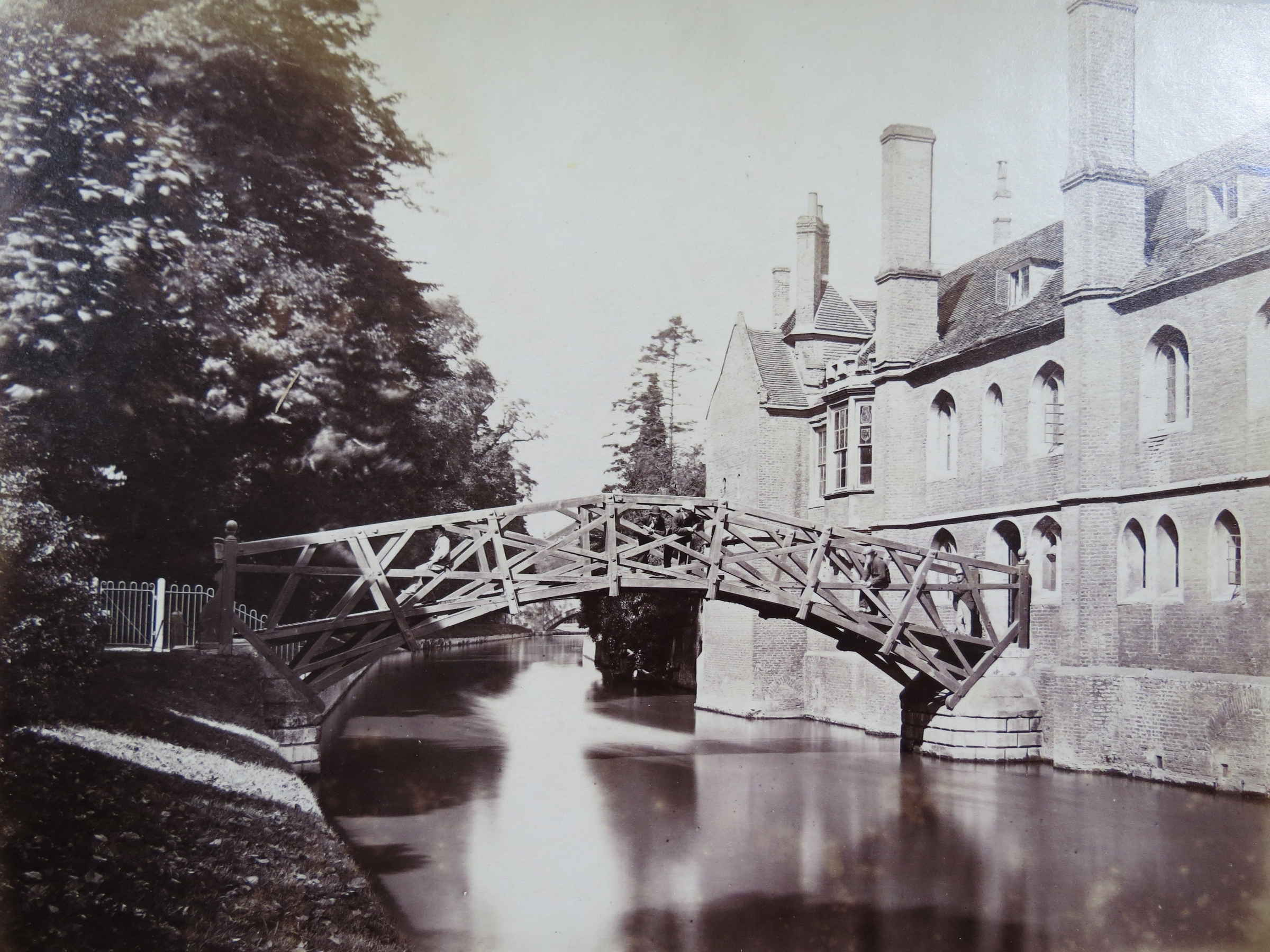 Mathematical Bridge, Queens' College, Cambridge University; circa 1870. Image taken from original albumen print from a bound album of 58 Cambridge University photographs. Original 19th century album in the possession of Kimberly Blaker, New Boston Fine and Rare Books.